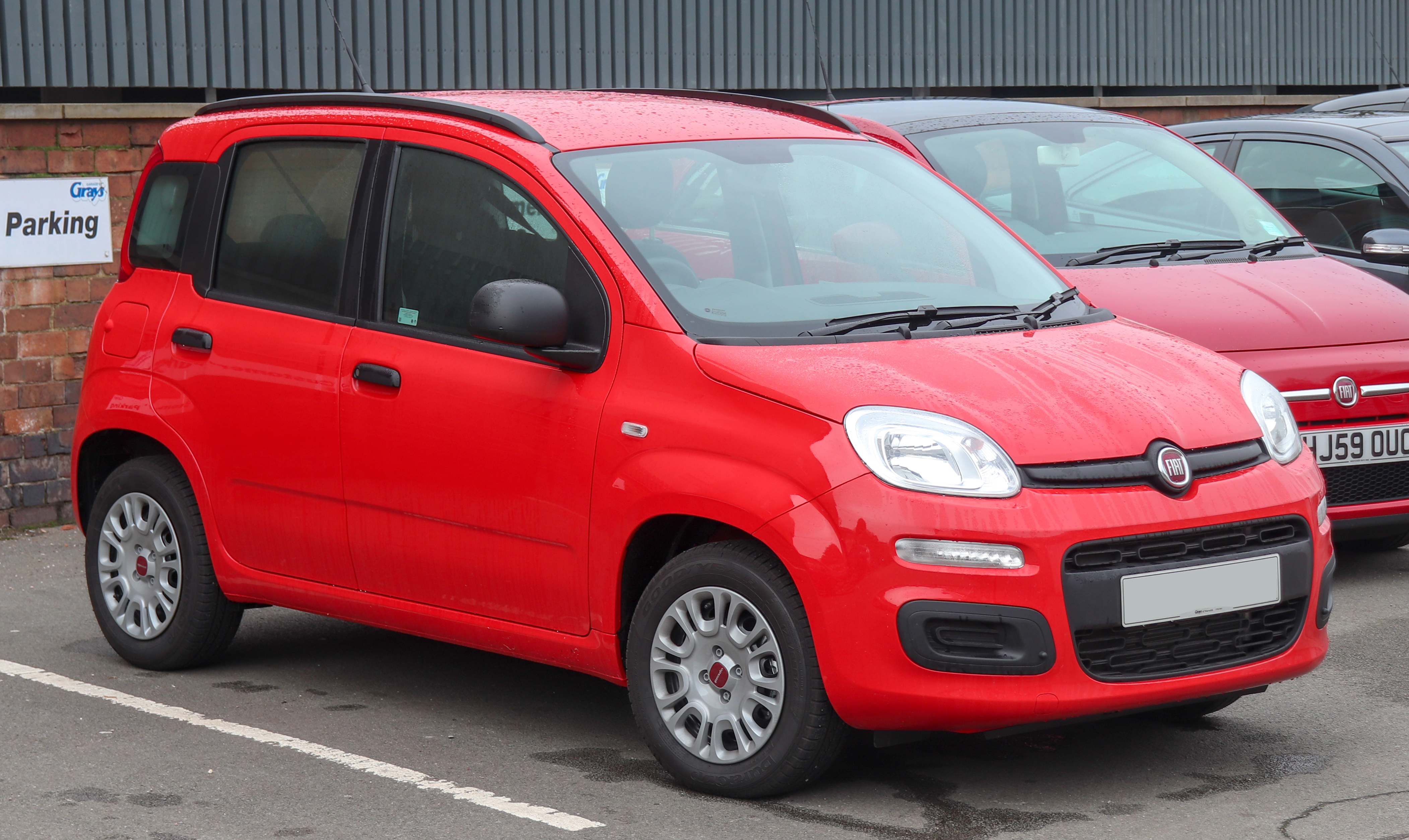 2018 Fiat Panda Easy 1.2